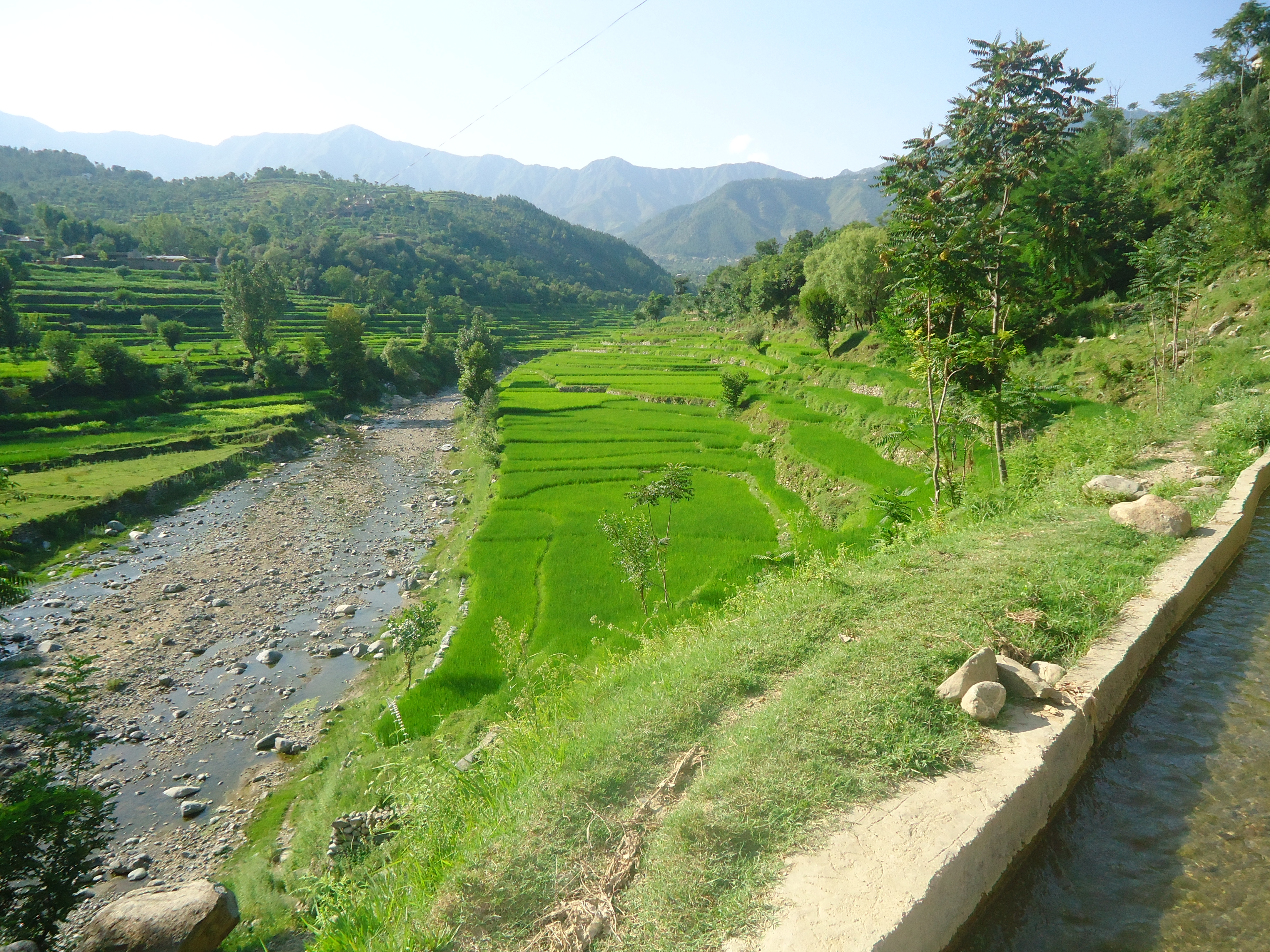 Stream and fields in Goor, a village in Maidan valley area of Lower Dir district, KPK, Pakistan